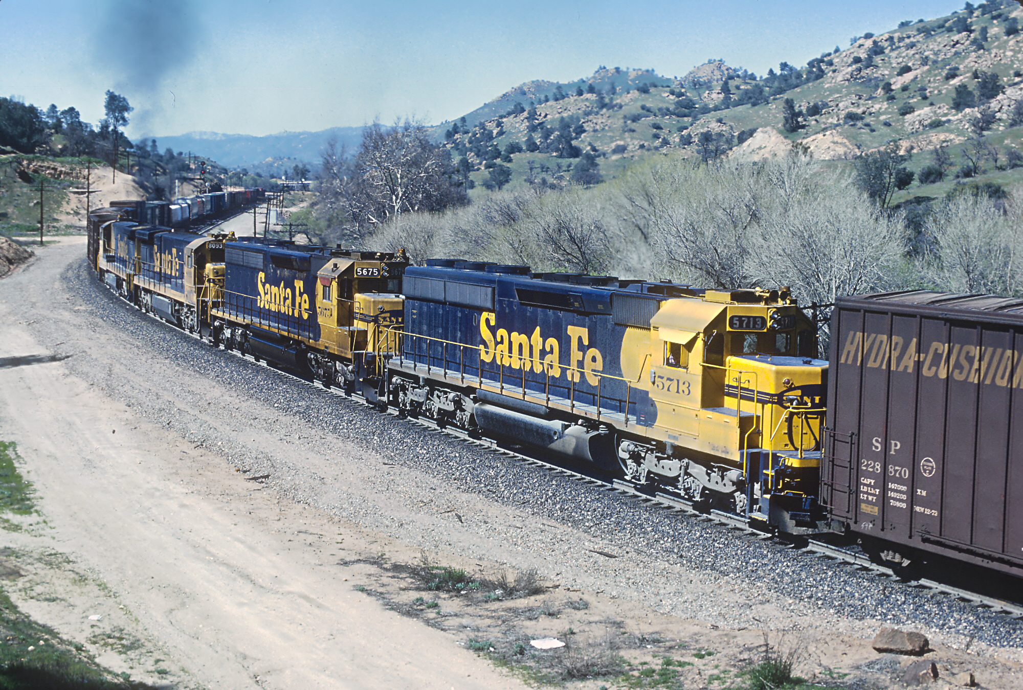 A Roger Puta Photograph Please feel free to add details of the photo, such as location, as a comment below.